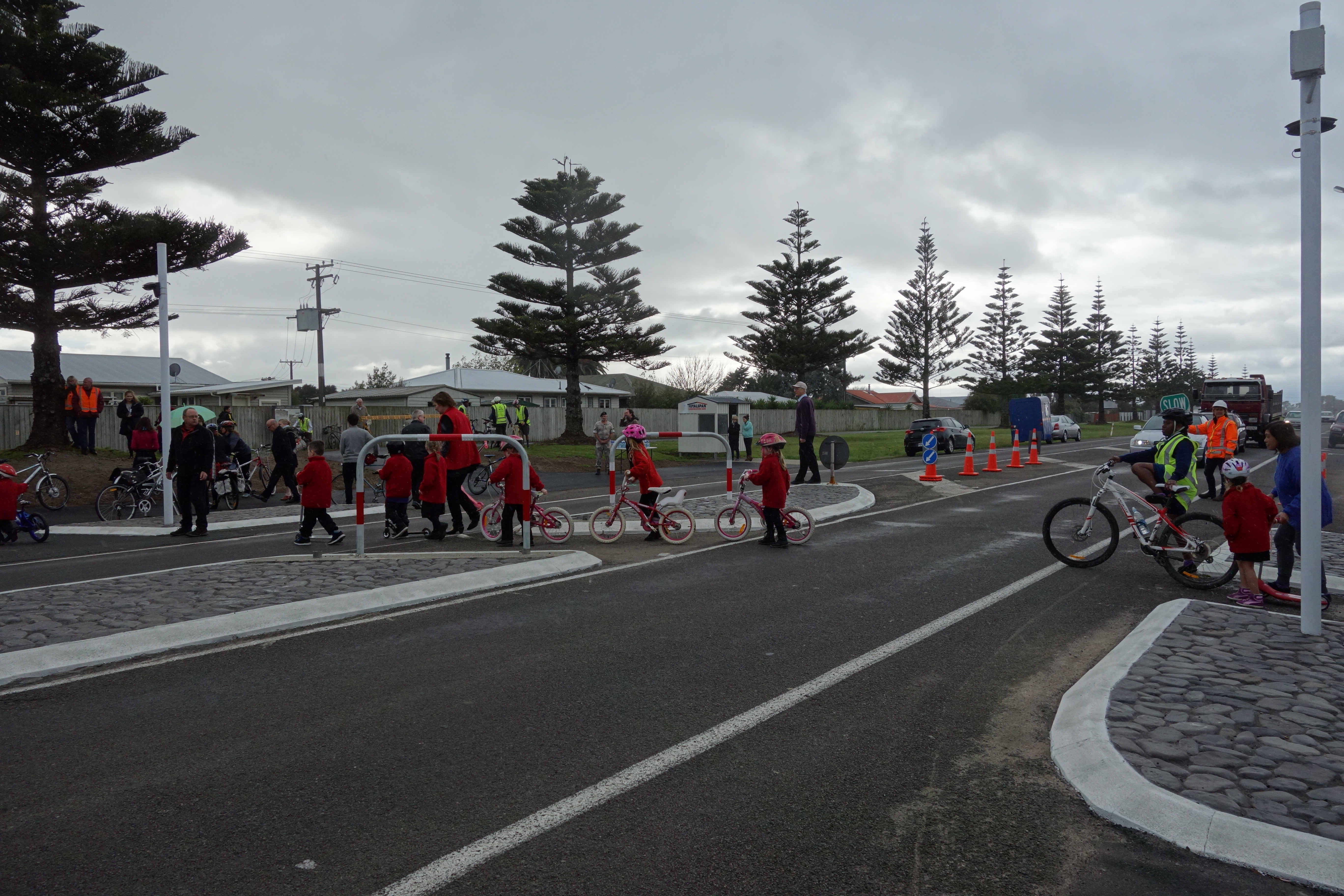 Getting safely across SH56.